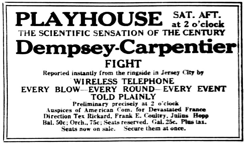 Newspaper advertisement soliciting attendance at the Playhouse Theater in Wilmington, Delaware, to hear the radio broadcast of the July 2, 1921 Dempsey-Carpentier heavyweight prize fight